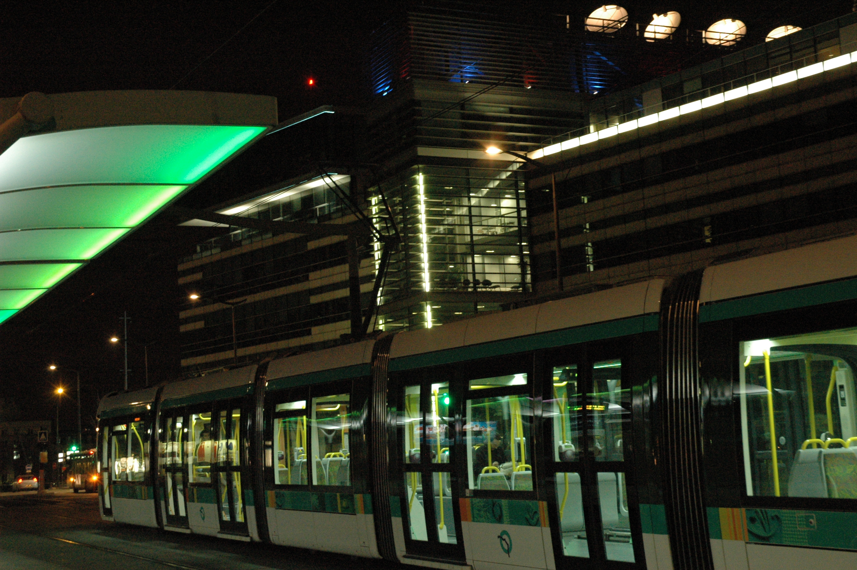 Terminus du tramway T3